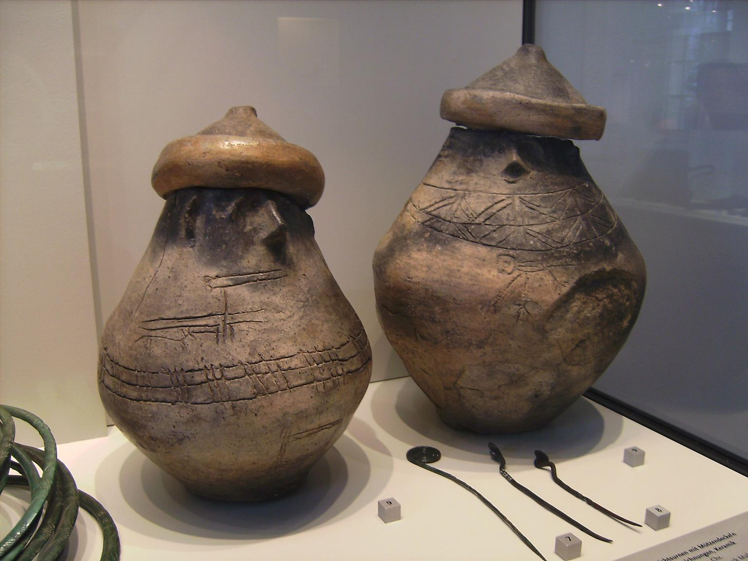 two urns with facial decoration (from the Pommerellische Gesichtsurnen-Kultur) in Museum für Vor- und Frühgeschichte, Berlin